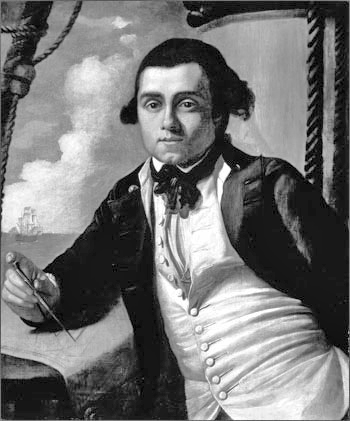 William Bligh, 1775